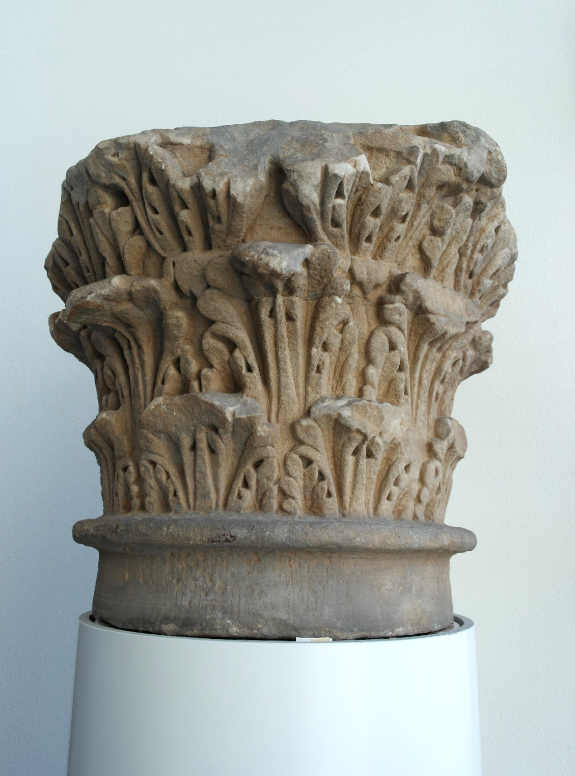 Corinthian capital (180-220 AD), found in 1871 at the site of a Roman villa near Meerssen. Archeological collection of Centre Céramique, Maastricht, the Netherlands.